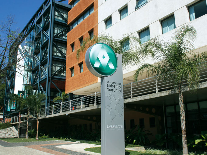 Anhembi Morumbi vila Olimpia